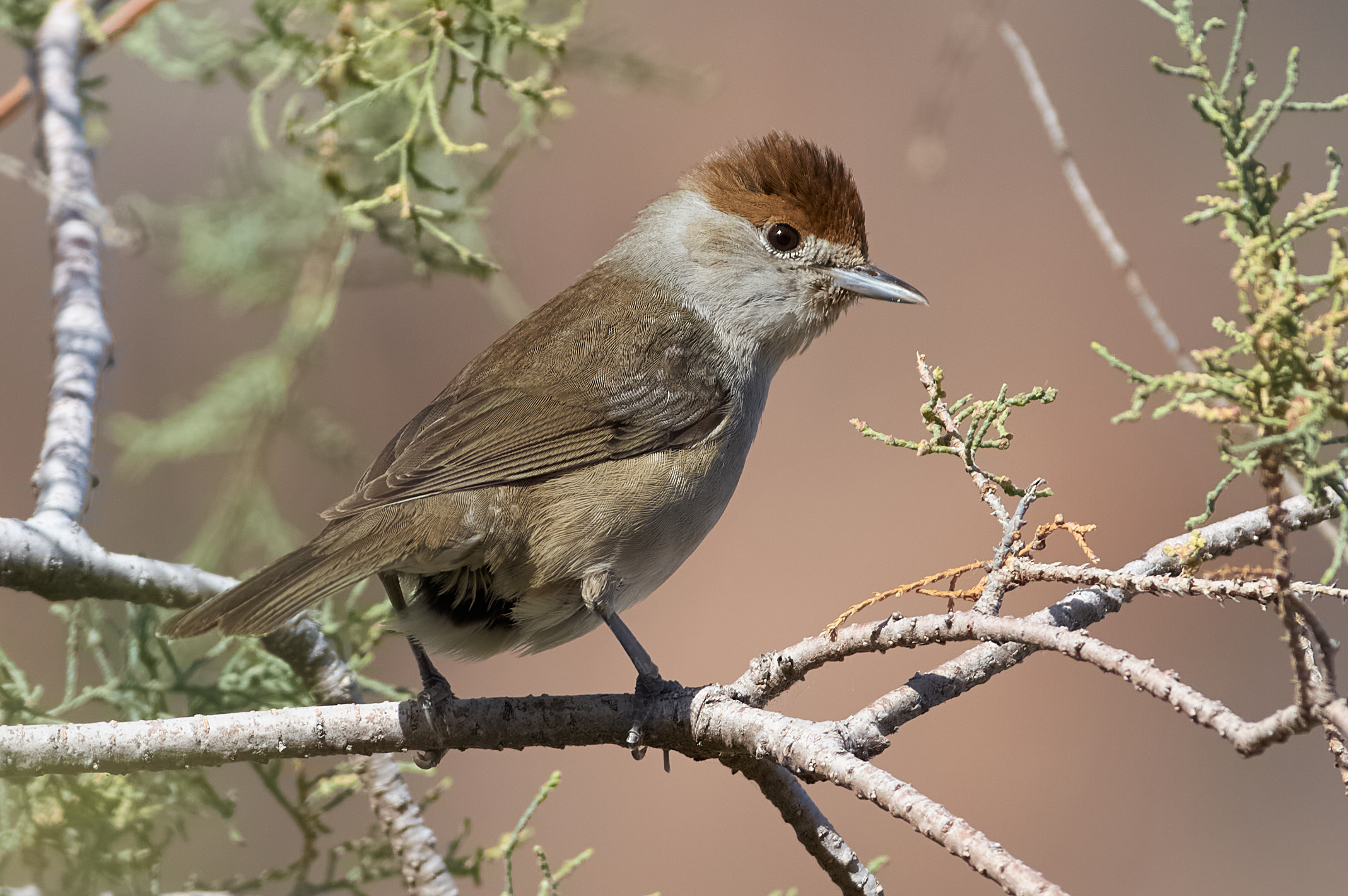 Eurasian blackcap, Female, Subspecies S. a. heineken